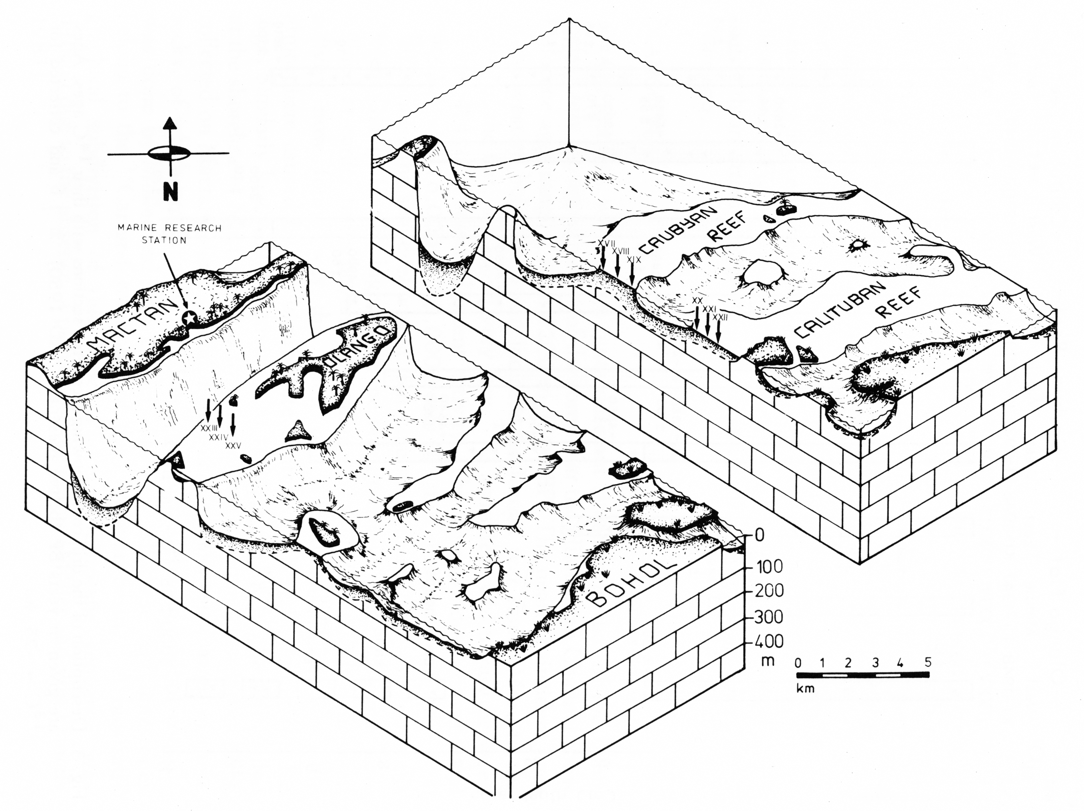 Block diagram of the reef belts between Cebu/Mactan and Olango/Bohol islands, Philippines.